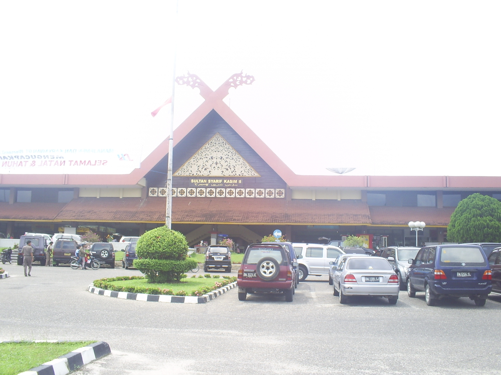 Sultan Syarif Kasim II Airport, Pekanbaru, Indonesia. Amateur photograph.